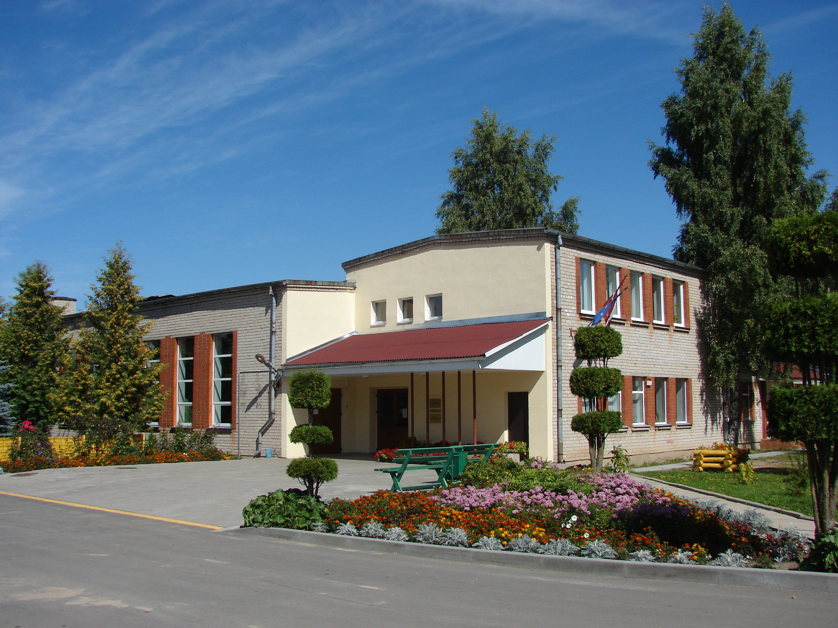 Robežnieki parish administration